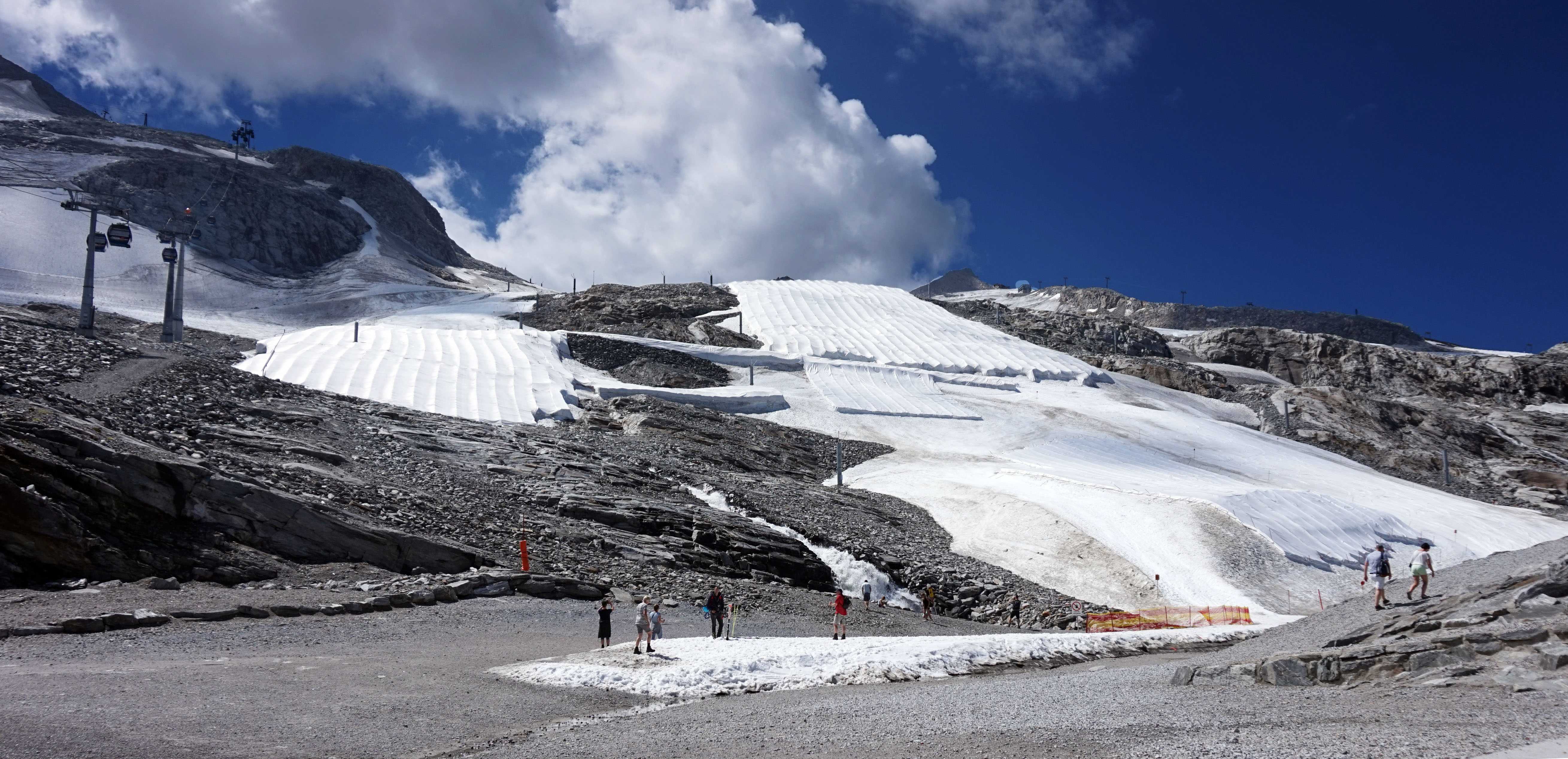 Hintertux Glacier, Austria. This photograph was taken with a Sony Alpha a5000.